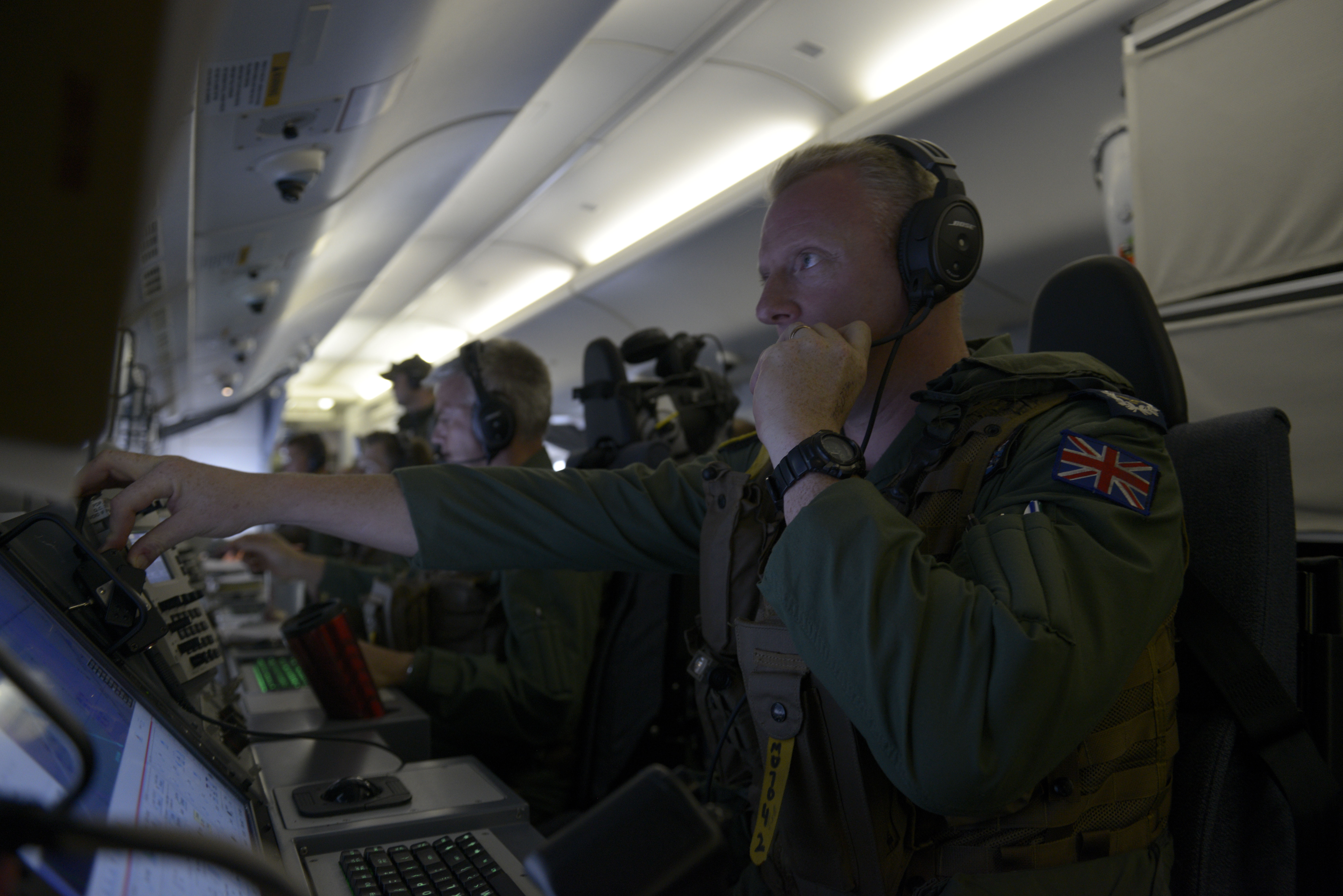 Royal Air Force Master Aircrewman Mark Utting, assigned to the Pro's Nest of Patrol Squadron (VP) 30, mans a radar station during a flight aboard a P-8A Poseidon during Fleet Challenge 2014. Fleet Challenge 2014 aircrews compete in a simulator and flight operations to test anti-submarine warfare mission planning, optimized tactics and crew training. (U.S. Navy Photo by Mass Communication Specialist 2nd Class David Giorda/Released) Unit: Navy Media Content Services